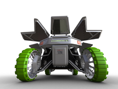 General Motors' West Coast Advanced Design Studio in southern California produced this entry, the HUMMER O2 Concept, for the 2006 California Design Challenge contest whose theme this year is Environmental Sustainability. The HUMMER O2 two-dimensional Blue Sky Concept offers rugged capability, a 'tread lightly' contact system and construction methods promoting safety, accessibility and re-usability. For example, the HUMMER 02 Concept features a revolutionary phototropic body shell that produces pure oxygen throughout the lifespan of the vehicle. Algae-filled body panels transform harmful carbon dioxide into pure oxygen that is subsequently released back into the environment and inside the vehicle. Four modular and self-contained fuel cells power hydraulic motors are built into each wheel, and to reduce environmental impact, the HUMMER O2's construction utilizes 100 percent post-consumer materials. (General Motors Handout Photo) (United States)